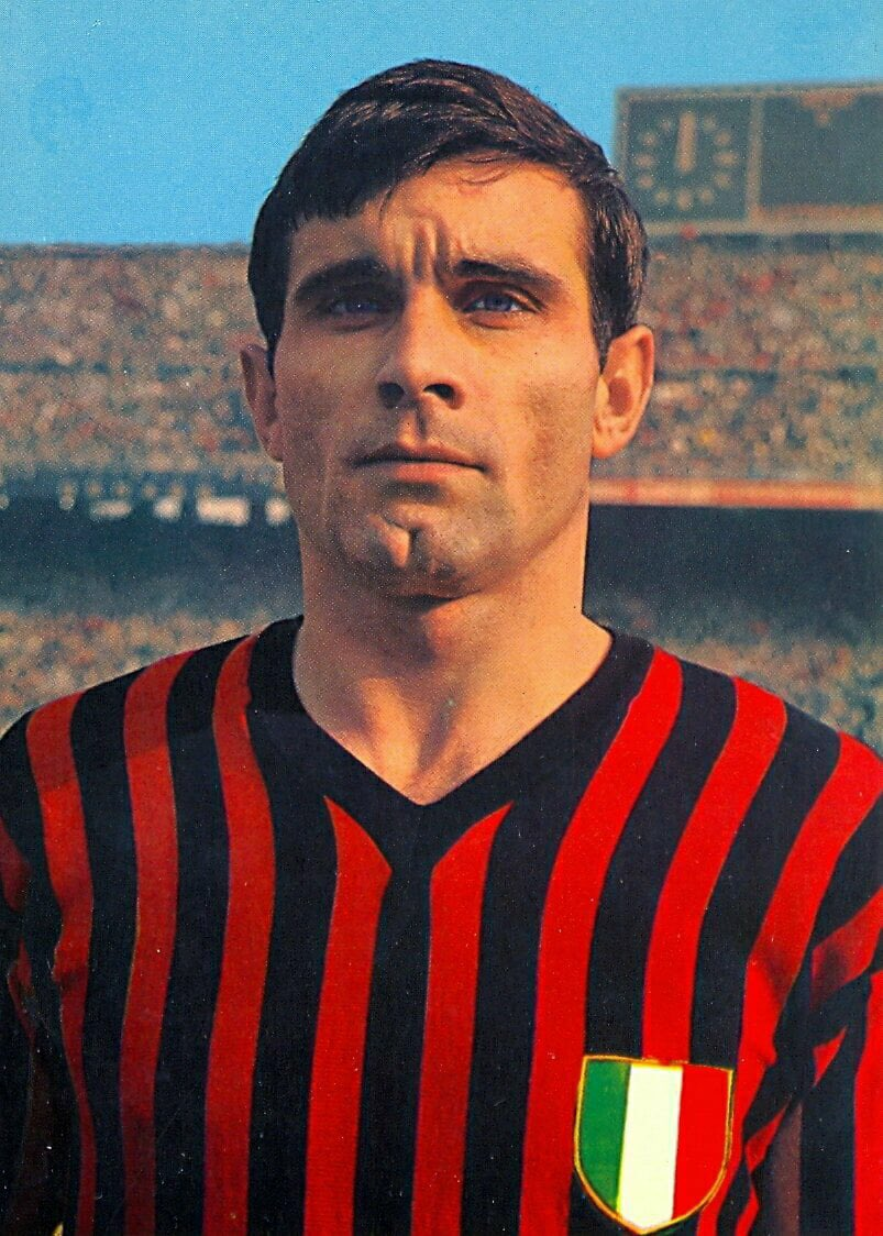 Italian footballer Angelo Anquilletti with A.C. Milan in the 1968–69 season, posing inside the San Siro Stadium in Milan.